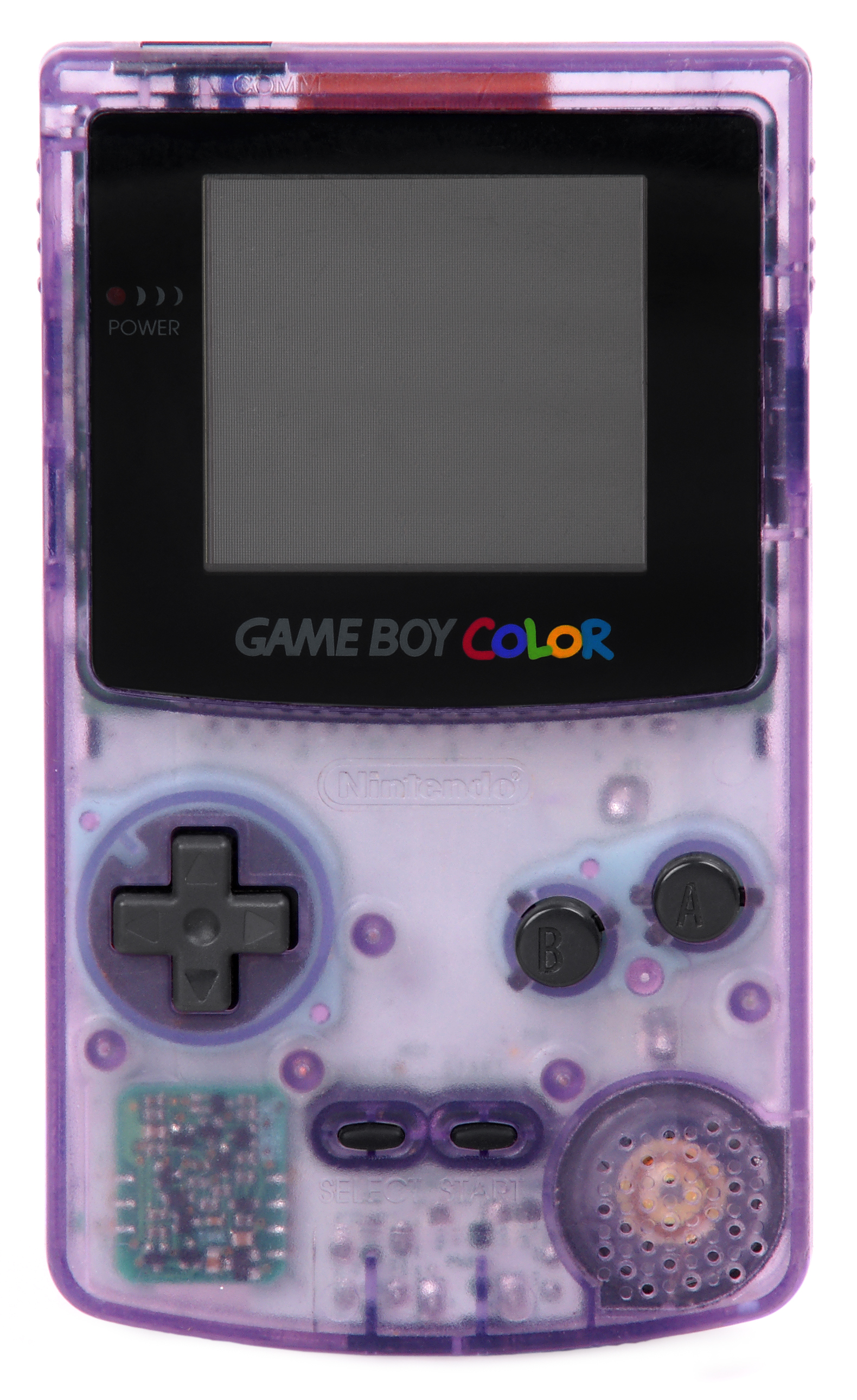 A Game Boy Color, shown in clear atomic purple color.